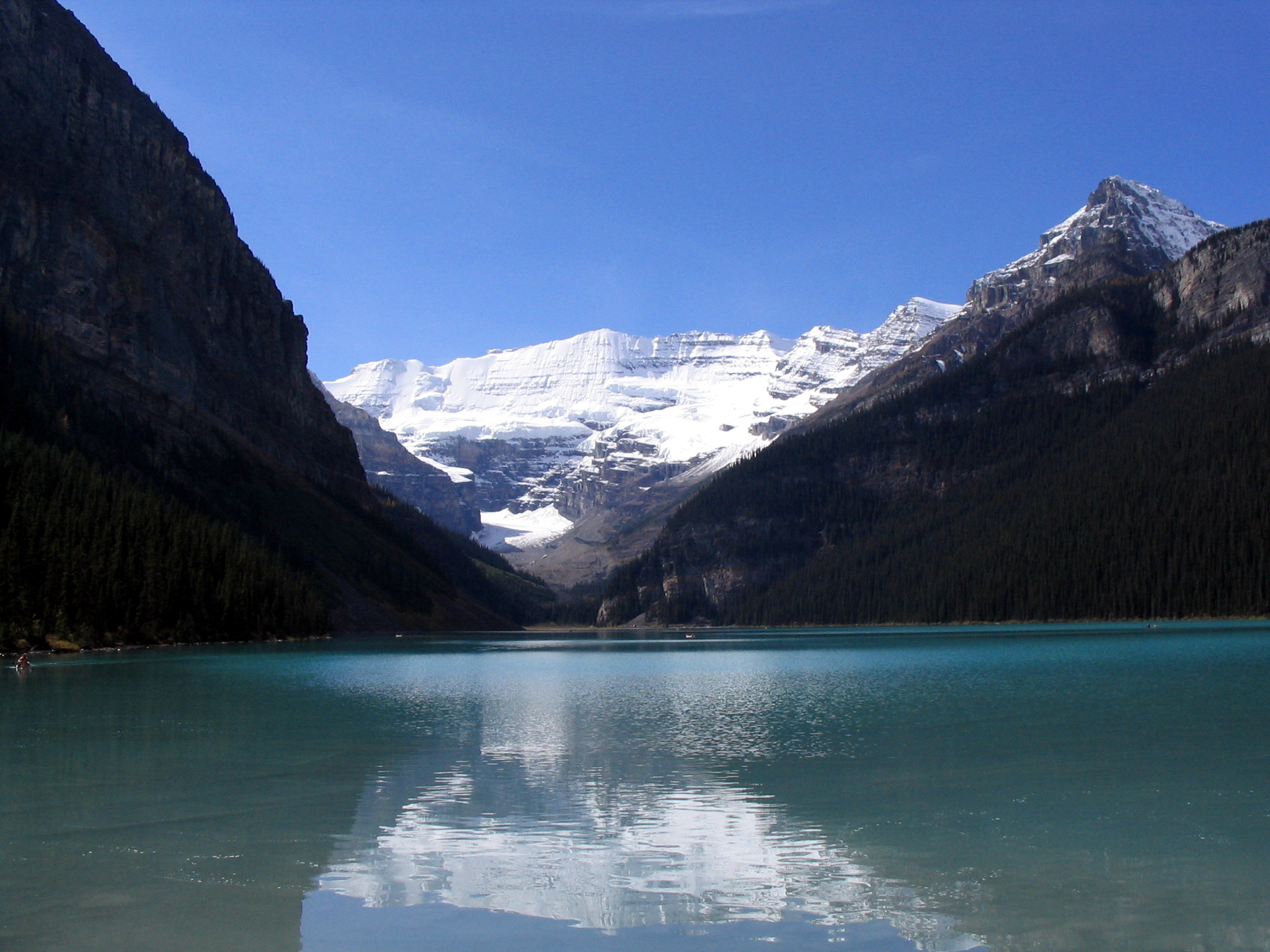 Lake Louise, Banff National Park, Canada